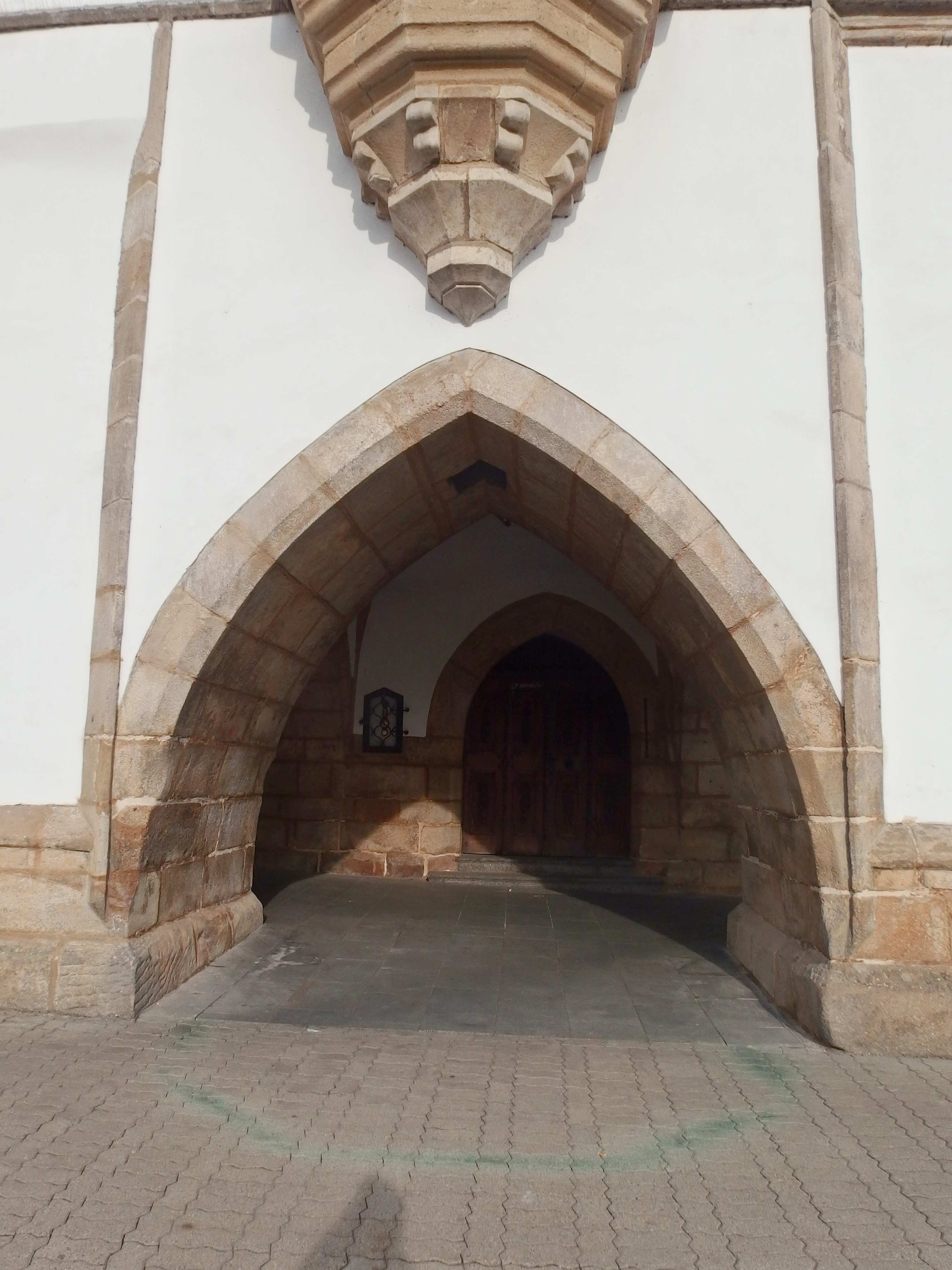 Kadaň, Chomutov District, Czech Republic. Town hall.